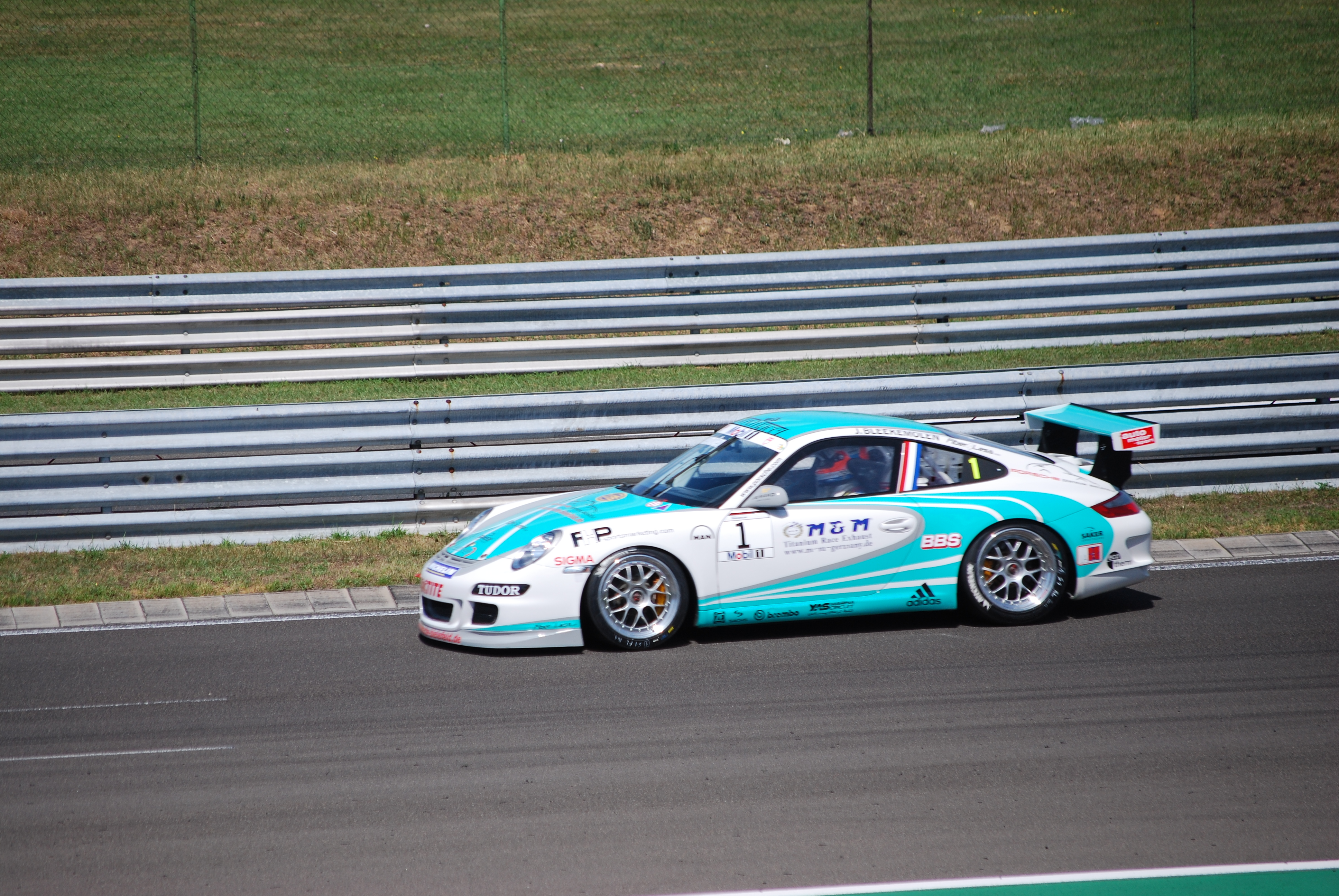 Jeroen Bleekemolen during Porsche Supercup at Hungaroring in 2009.